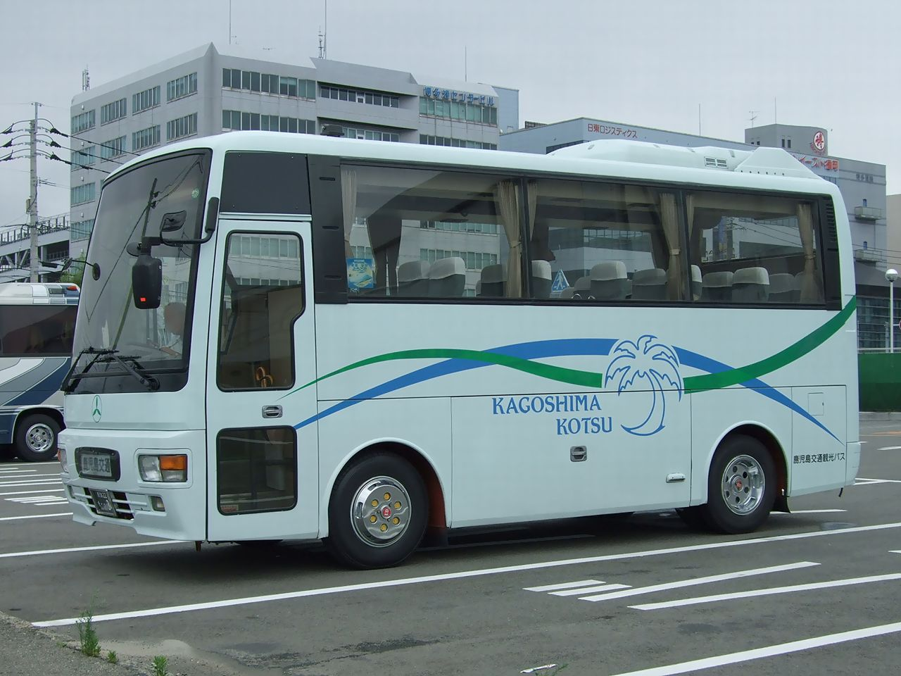 Company:Kagoshima Kotsu Kanko Bus Use:tour bus Car license:鹿児島22 を・・34 Chassis manufacturer:Nissan Diesel Coachbuilder:Fuji Heavy Industries Location:at Hakata Port, Fukuoka City, Fukuoka, Japan.